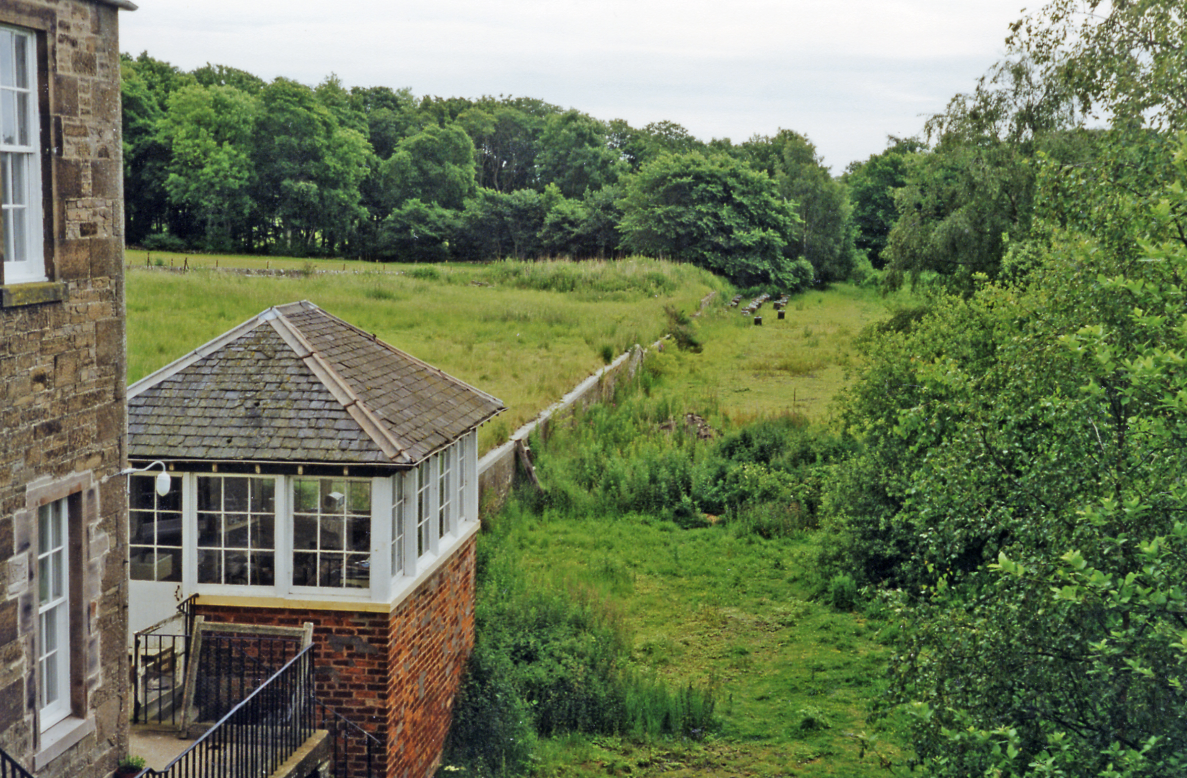 Eastward on course of former CR Perth - Aberdeen main line at Auldbar Road, 1997. The station house and signalbox have evidently been restored: the station was off to the left. This was the ex-Caledonian Railway Perth - Aberdeen main line until closed (Stanley Junction - Forfar - Kinnaber Junction) from 4/9/67. The station was closed 11/6/56 (goods 23/5/66).